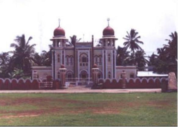 Juma Masjid, Thalassery